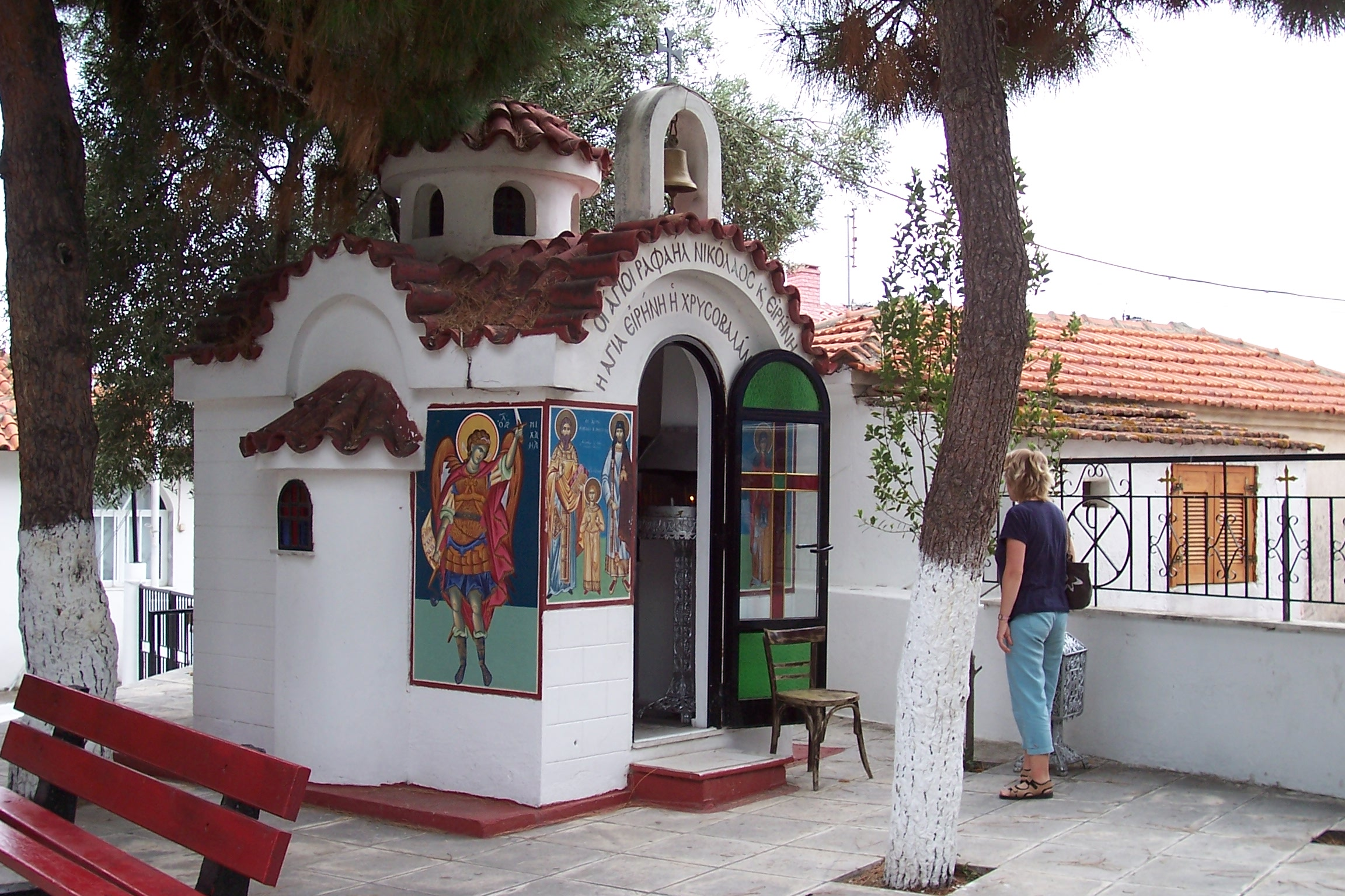 Sarti, Chalkidiki Prefecture, Greece.